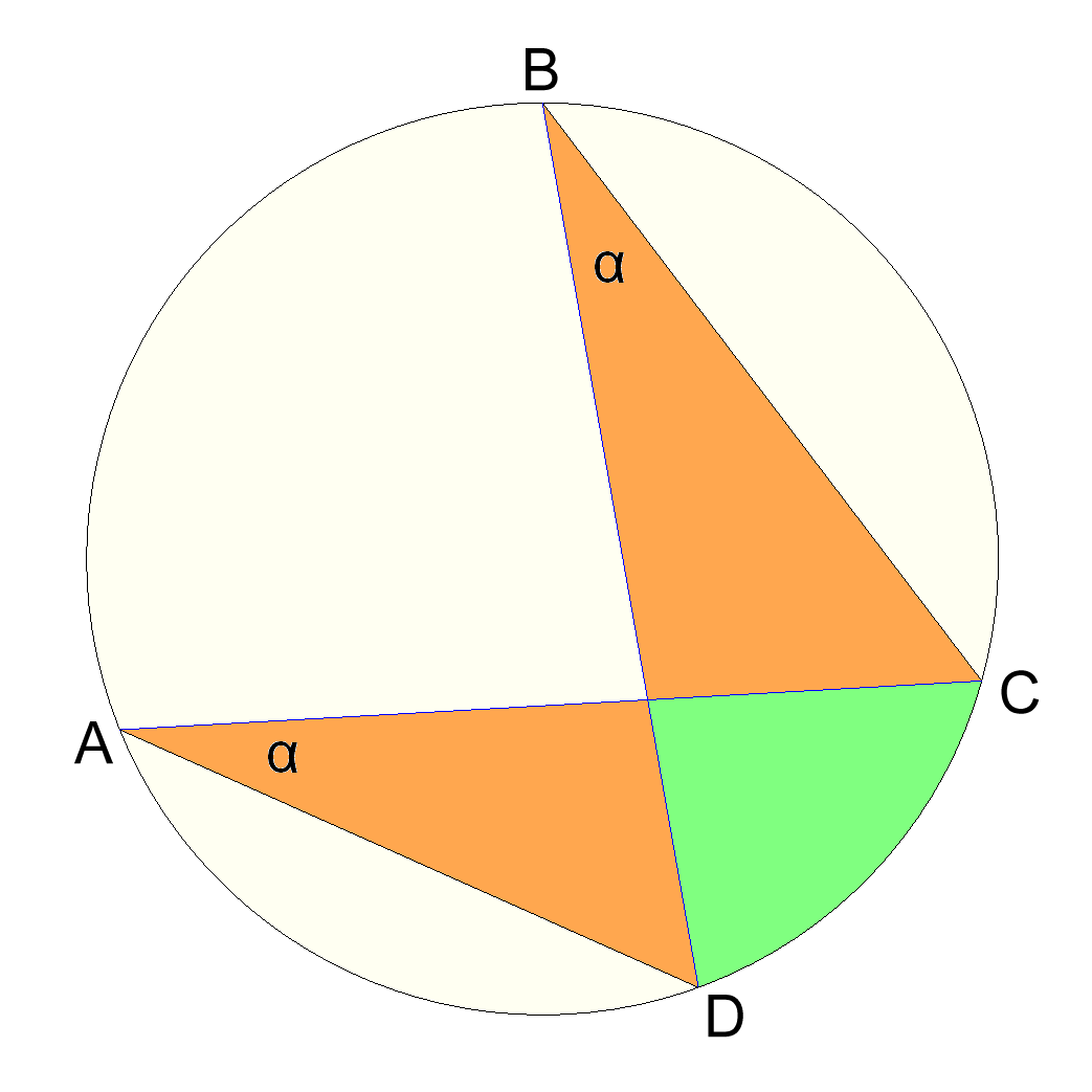 Illustration of four concyclic points, showing that angles α {\displaystyle \alpha } are the same.